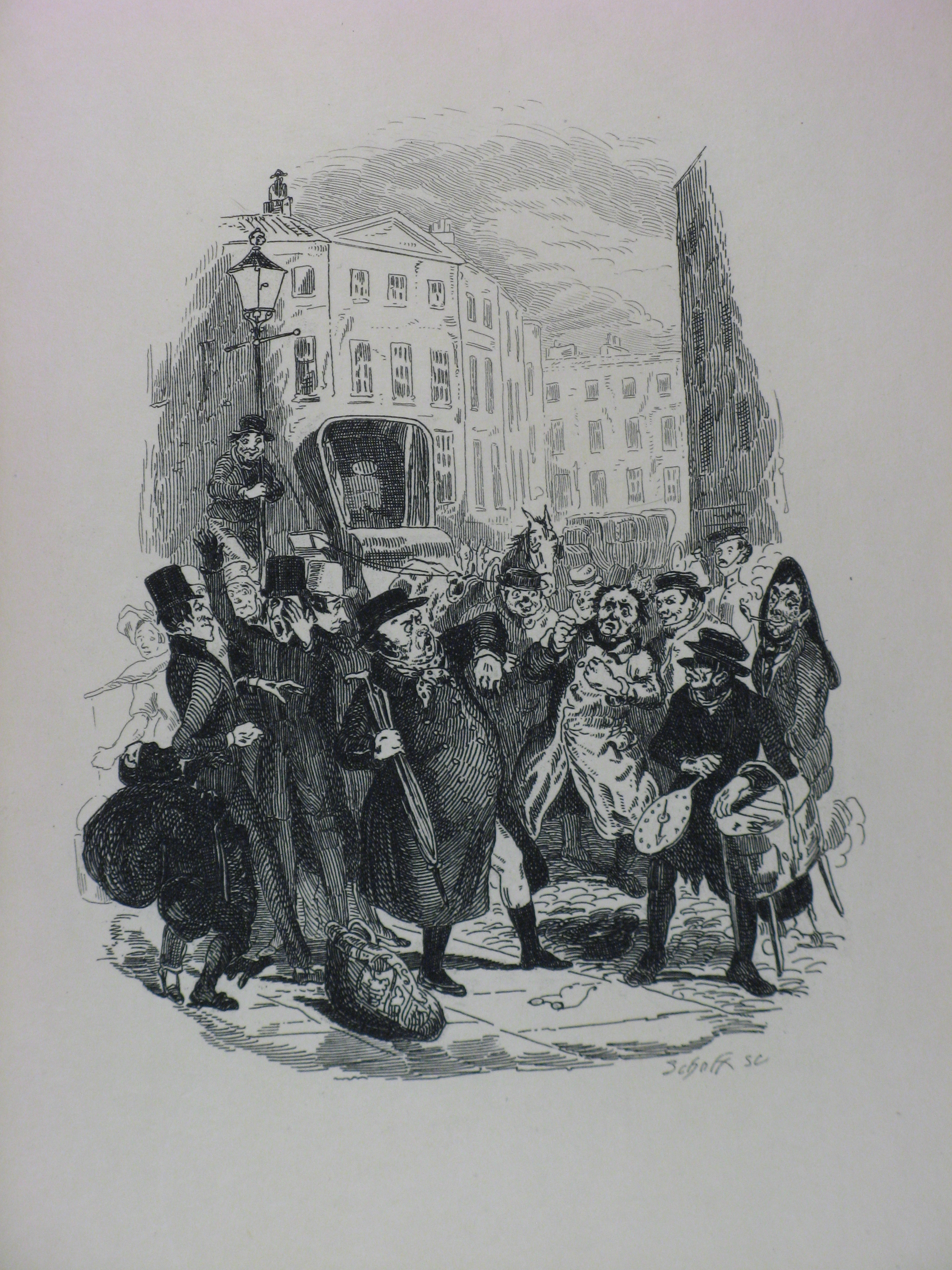 A photograph of an engraving in The Writings of Charles Dickens volume 1, The Pickwick Club, titled "The Pugnacious Cabman".